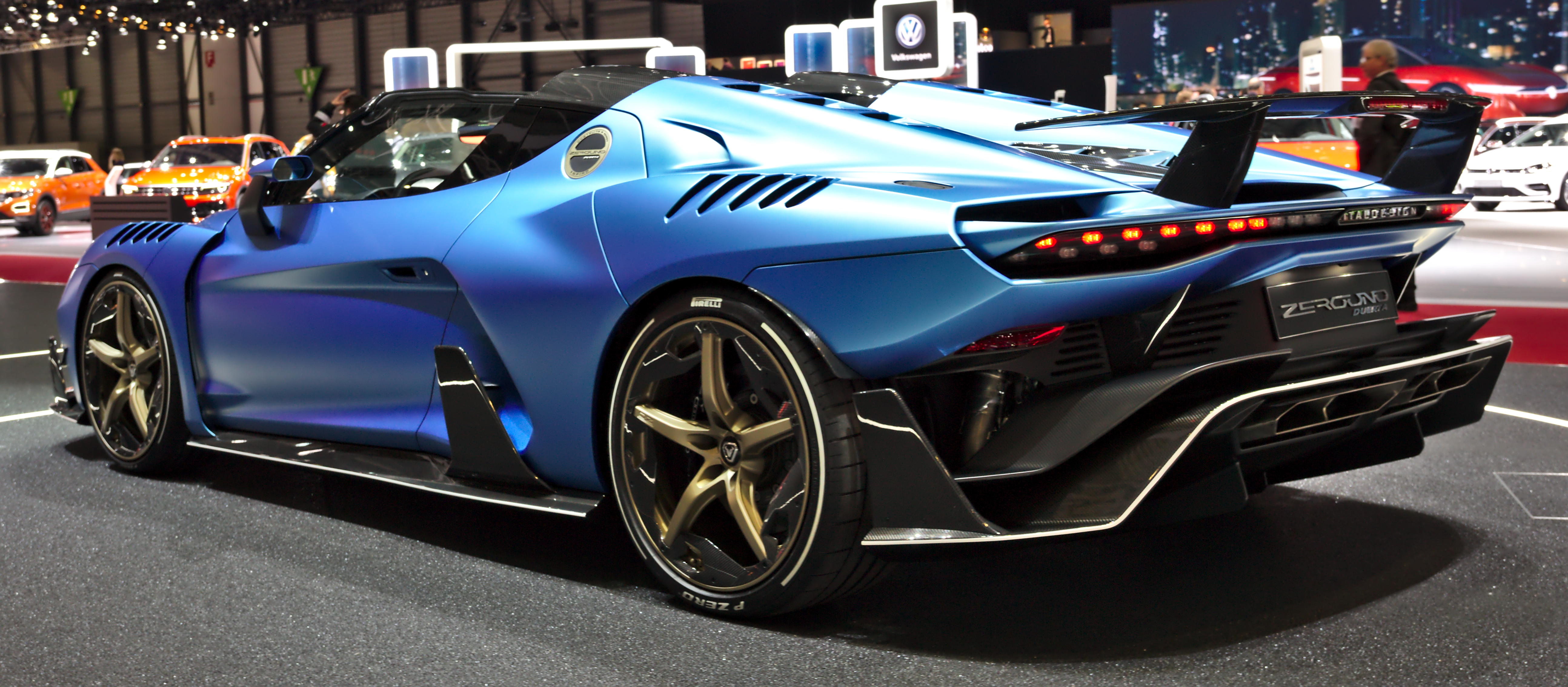 Italdesign Zerouno Duerta at Geneva Motorshow 2018